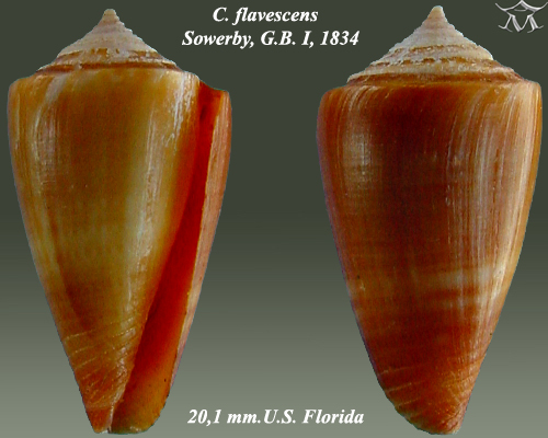 Conus flavescens 10